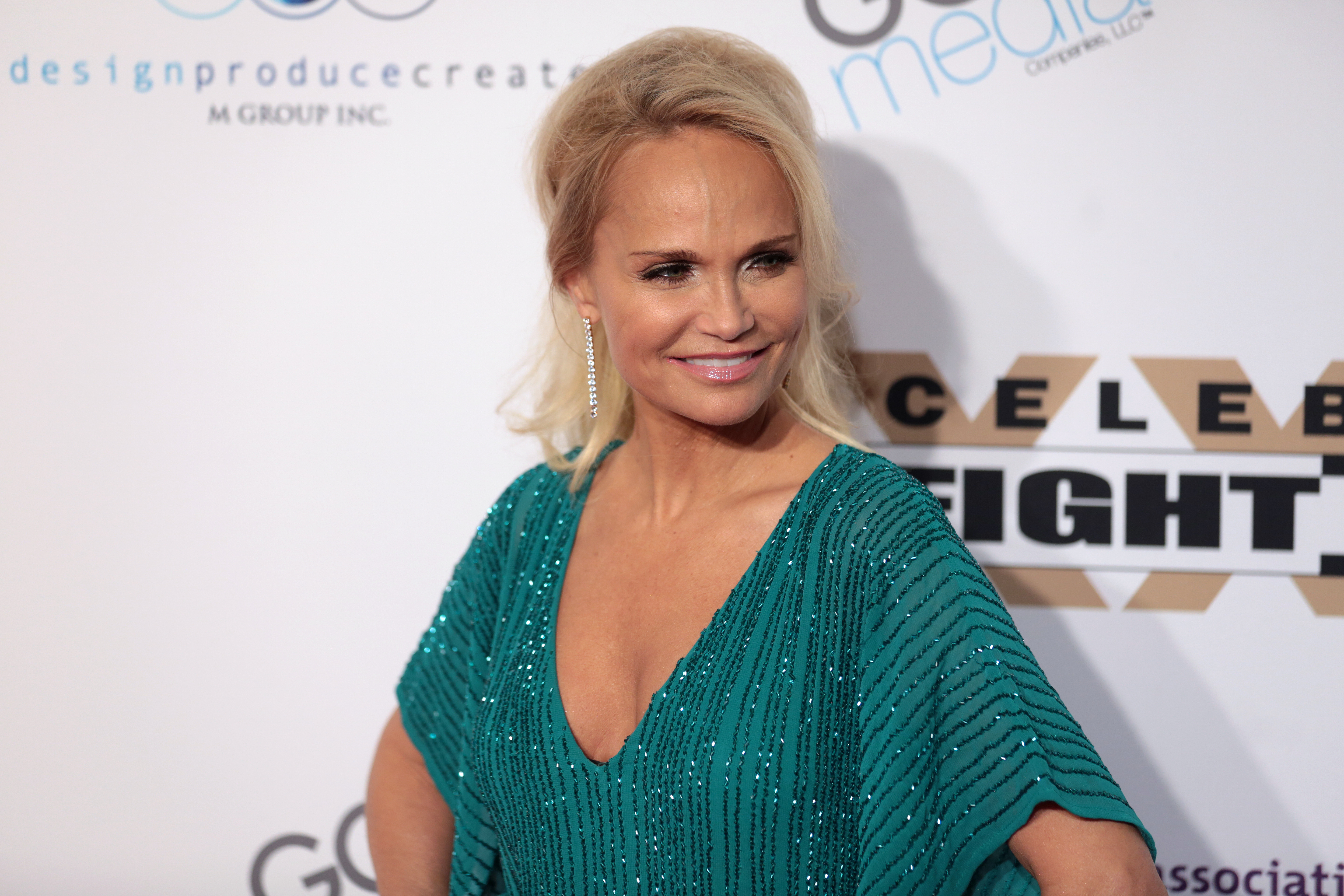 Kristin Chenoweth on the red carpet at Celebrity Fight Night XXIV at the JW Marriott Desert Ridge Resort & Spa in Phoenix, Arizona.